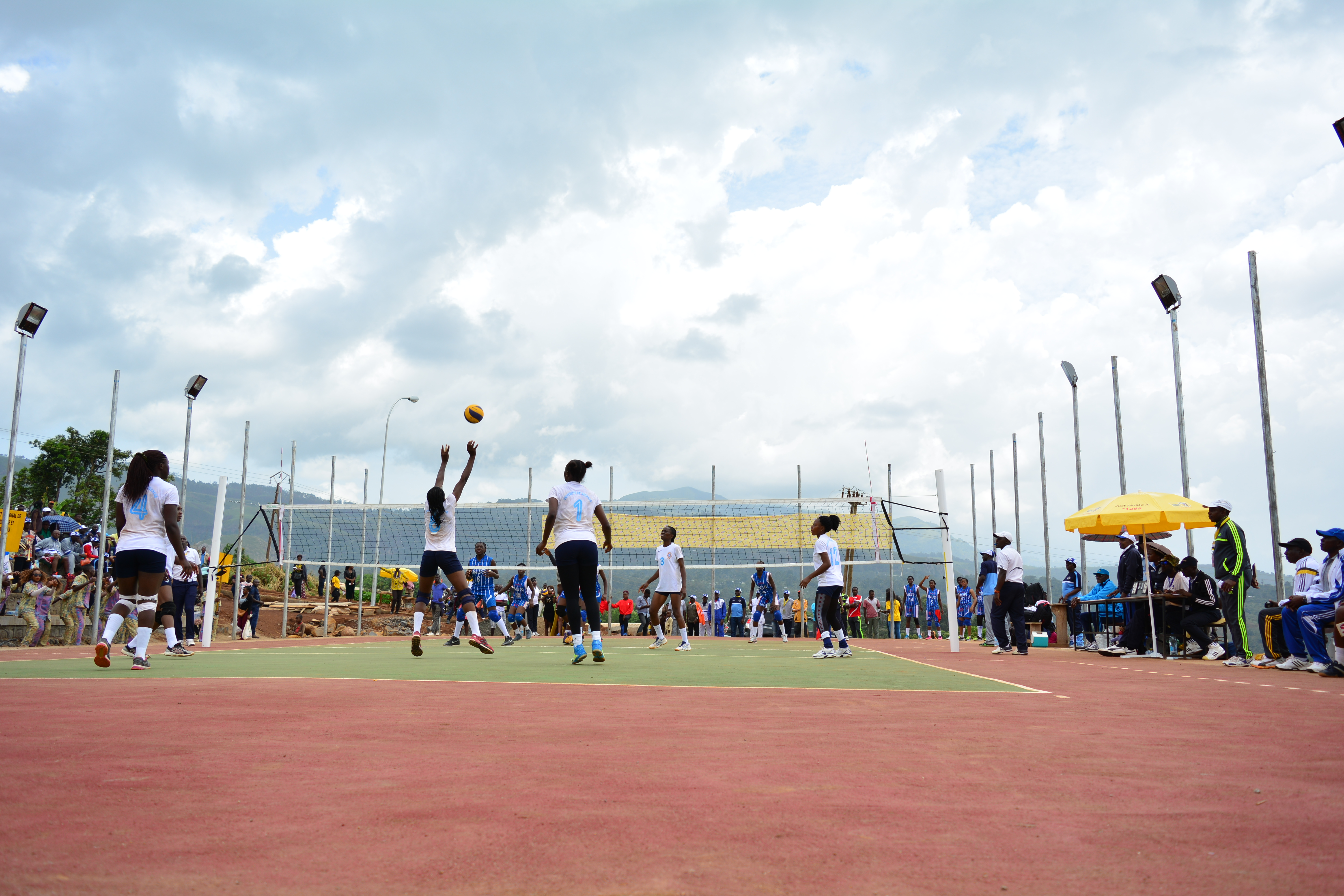 This is an image with the theme "Play" from: Cameroon